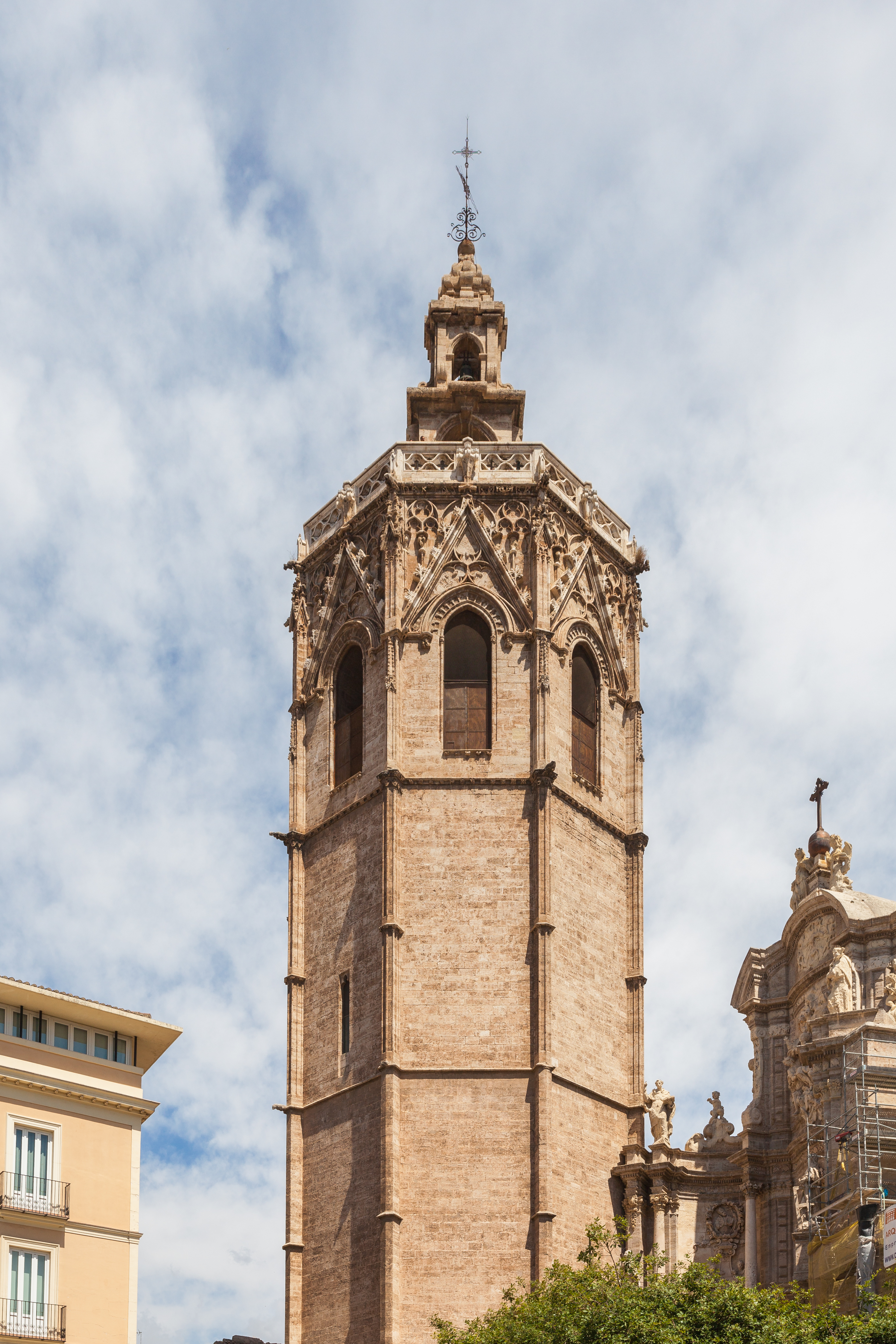 Valencia cathedral, Valencia, Spain